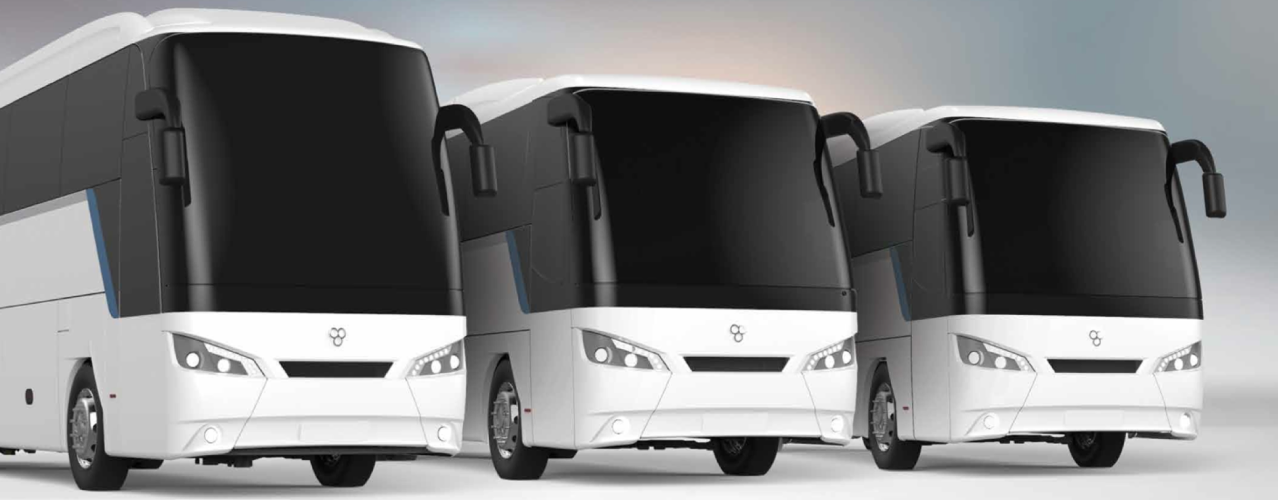 TAM Vive buses in three different categoris